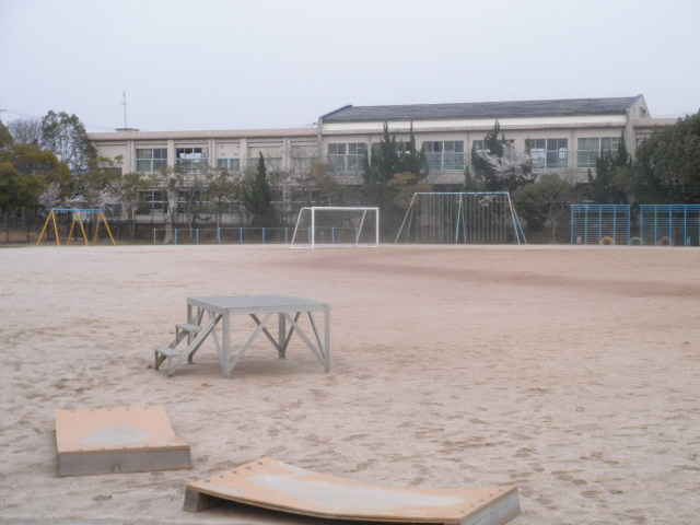 Midorigaoka Elementary School Mikicity Athletic ground